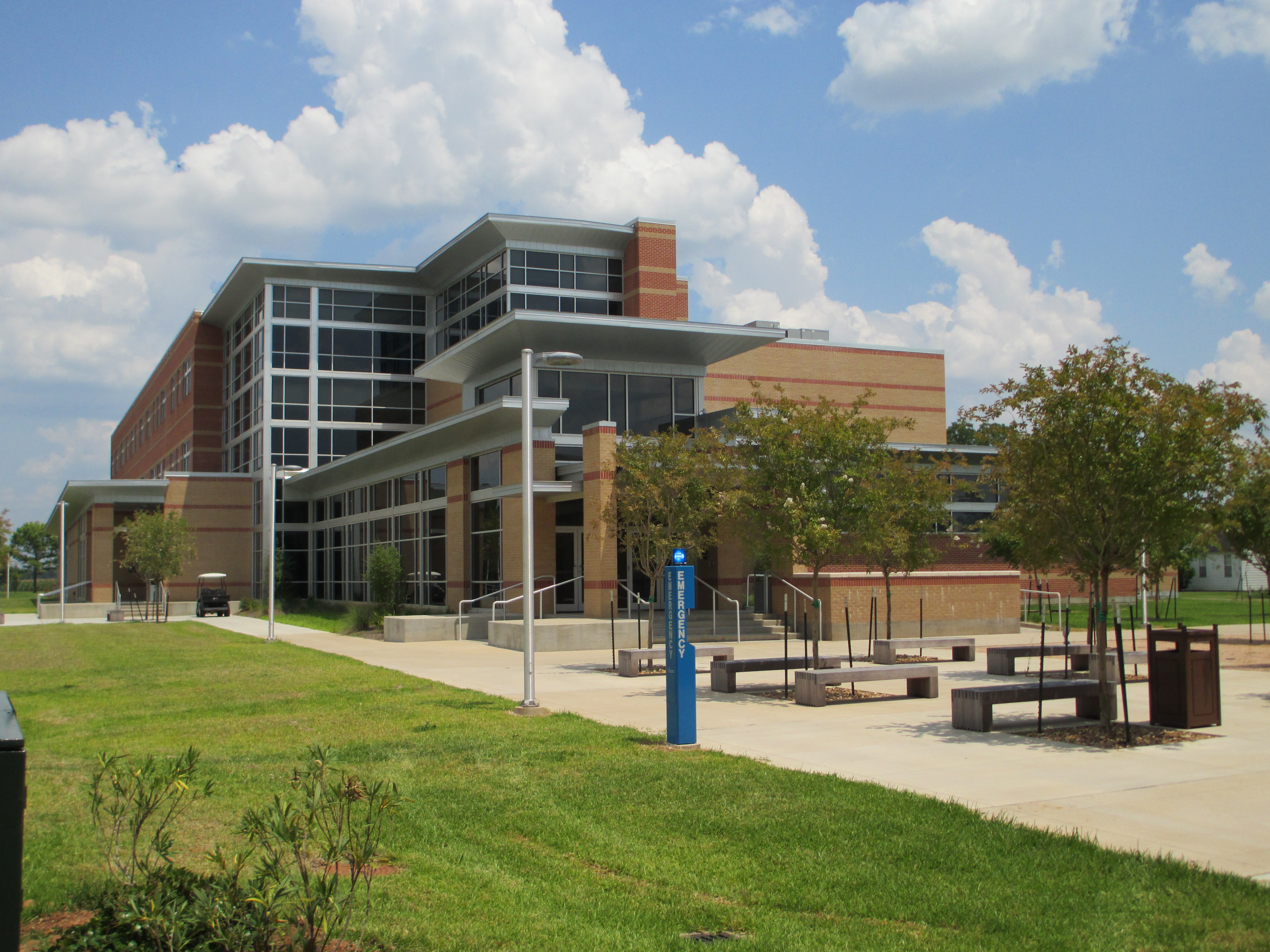 LSUA's Multipurpose Academic Center